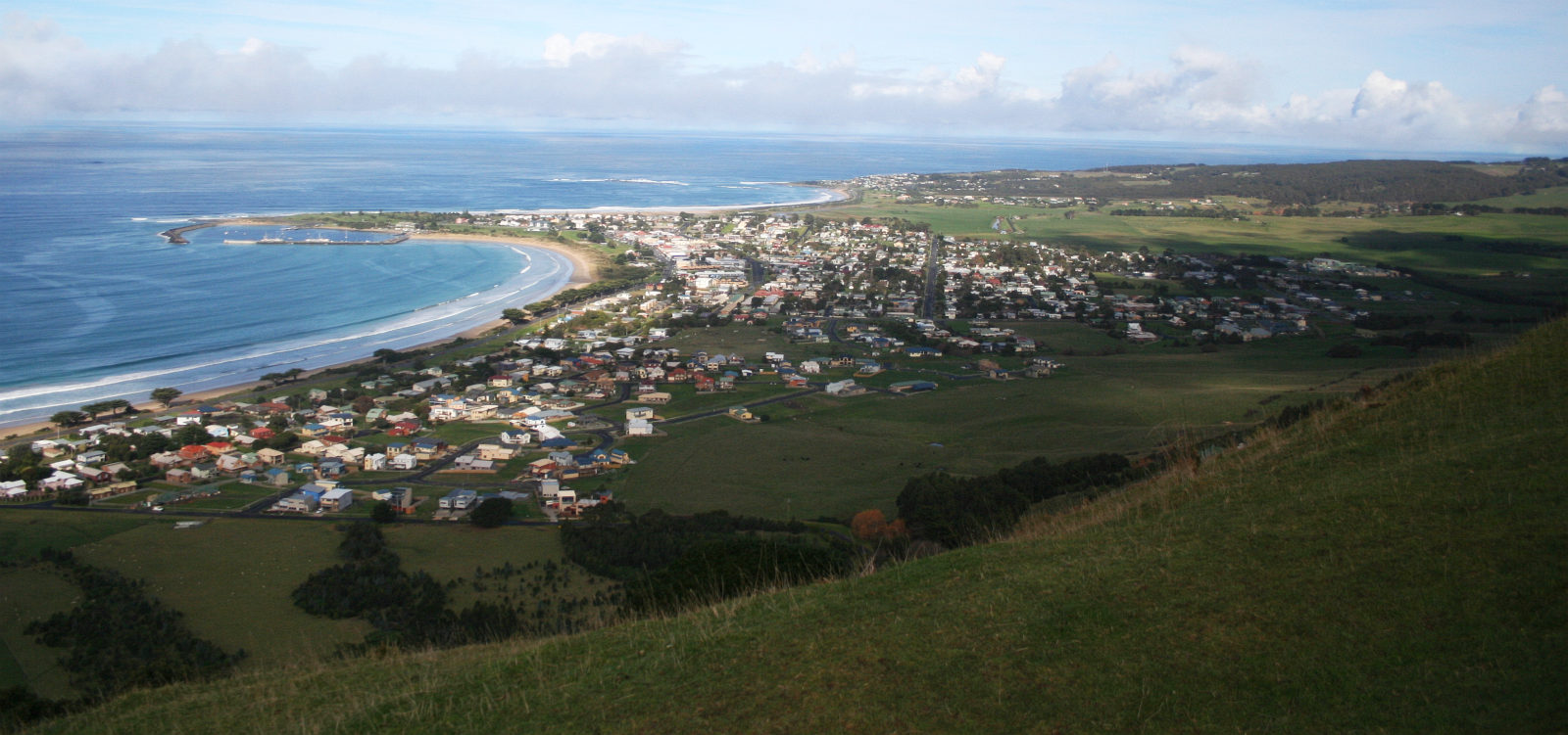 Apollo Bay, Victoria viewed from Mariners Lookout, looking south-west with the harbour and pier in the background